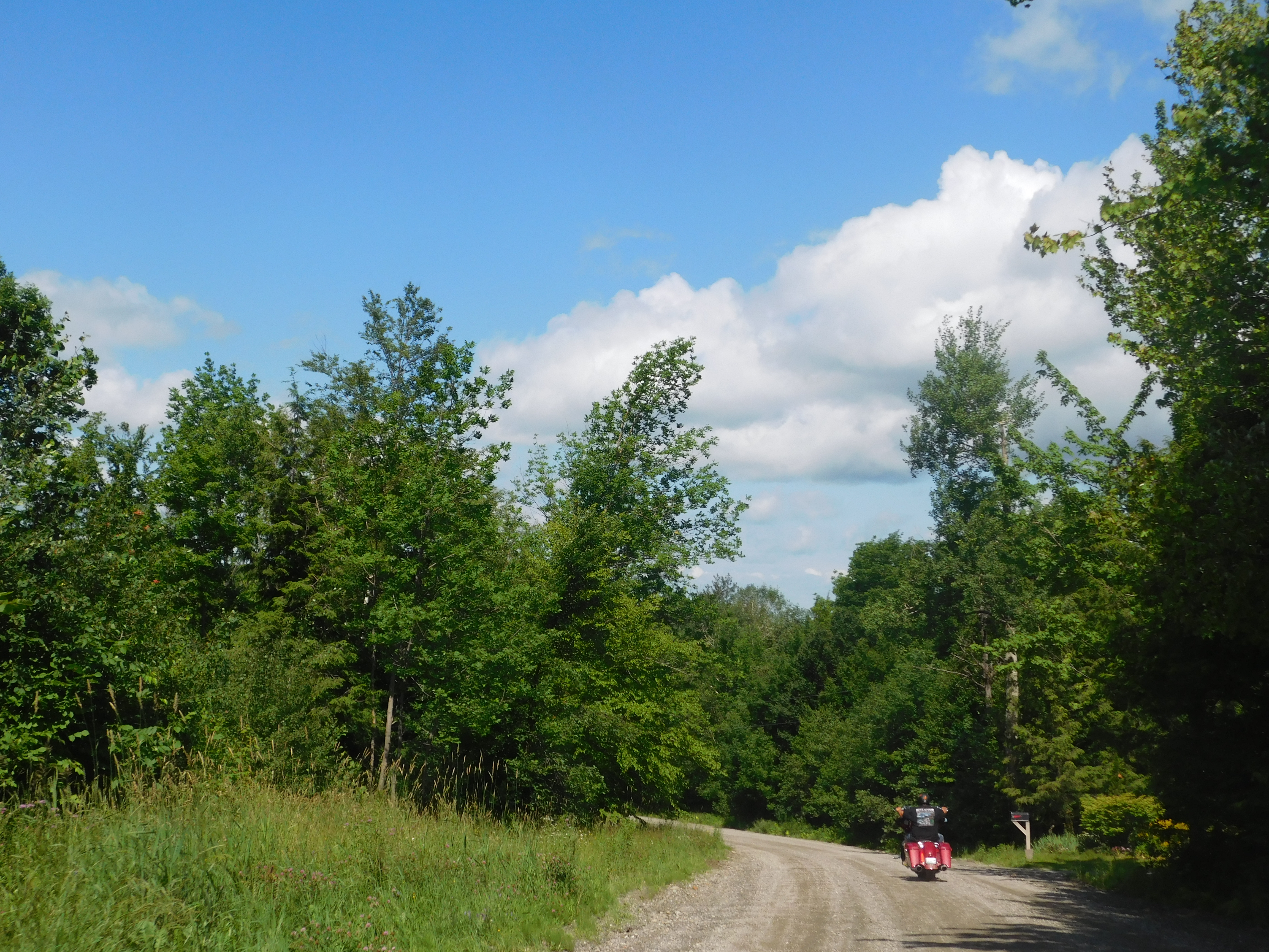 VT 58 through Hazens Notch State Forest.